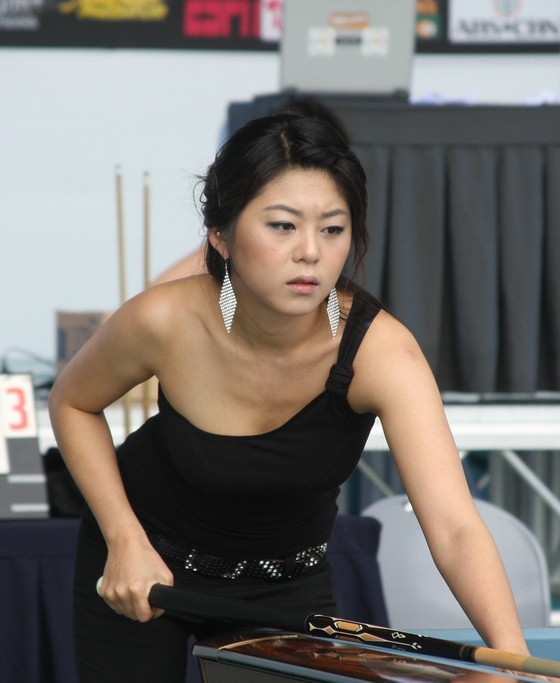 South Korean pool player, Kim Ga Young at the Women's World 10 Ball Championship.